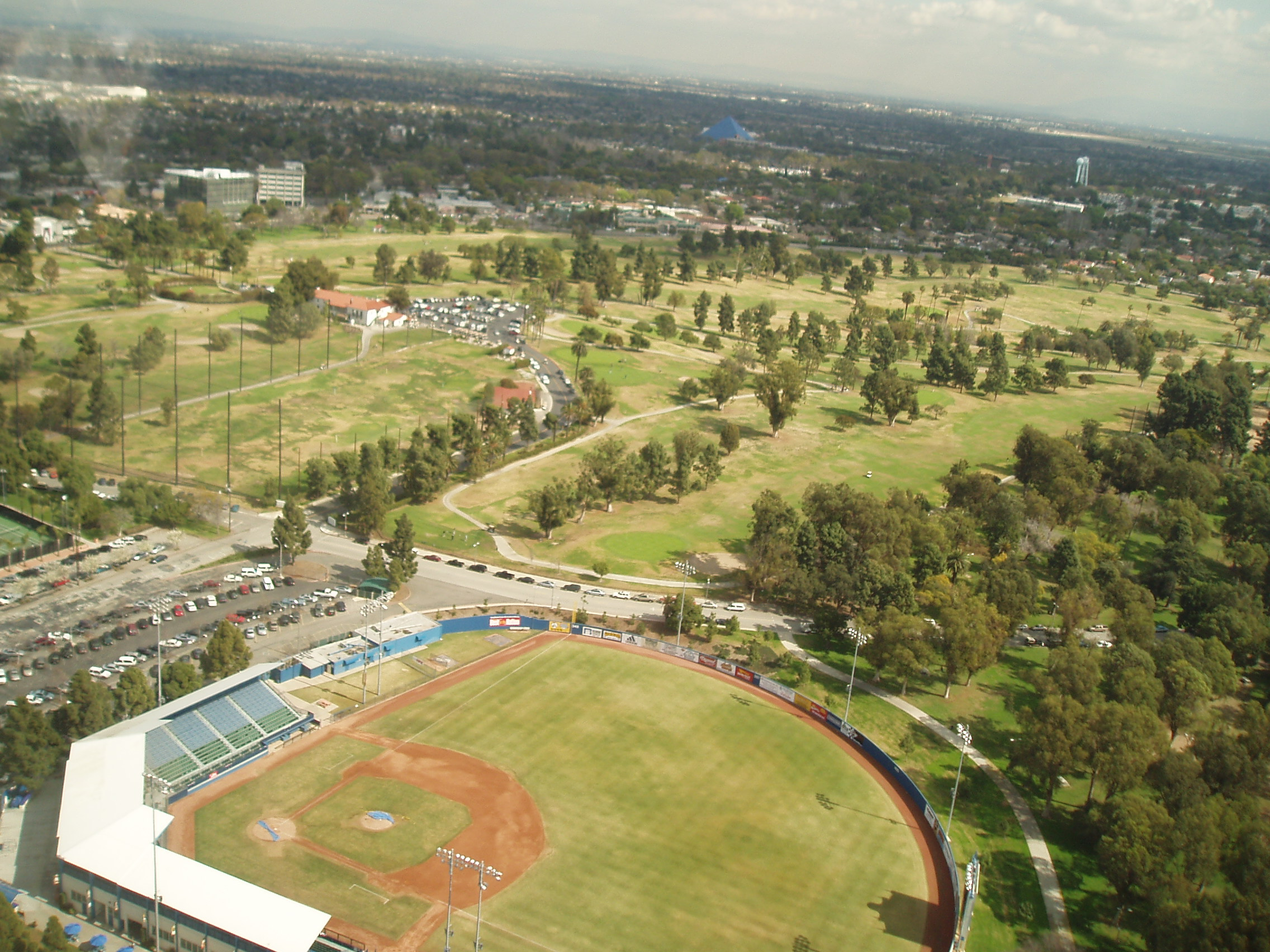 Blair Field and Recreation Park in Long Beach, California, seen from the air.